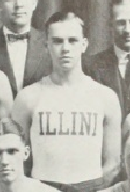 Wally Roettger, with the University of Illinois basketball team, taken from the school's 1923 yearbook.